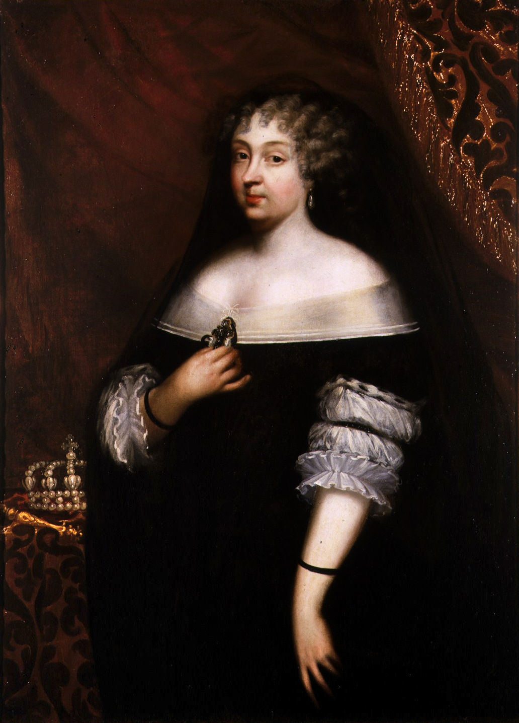 Portrait of Marie Jeanne Baptiste of Savoy (1644-1724) as a widow with the Savoyard crown behind her